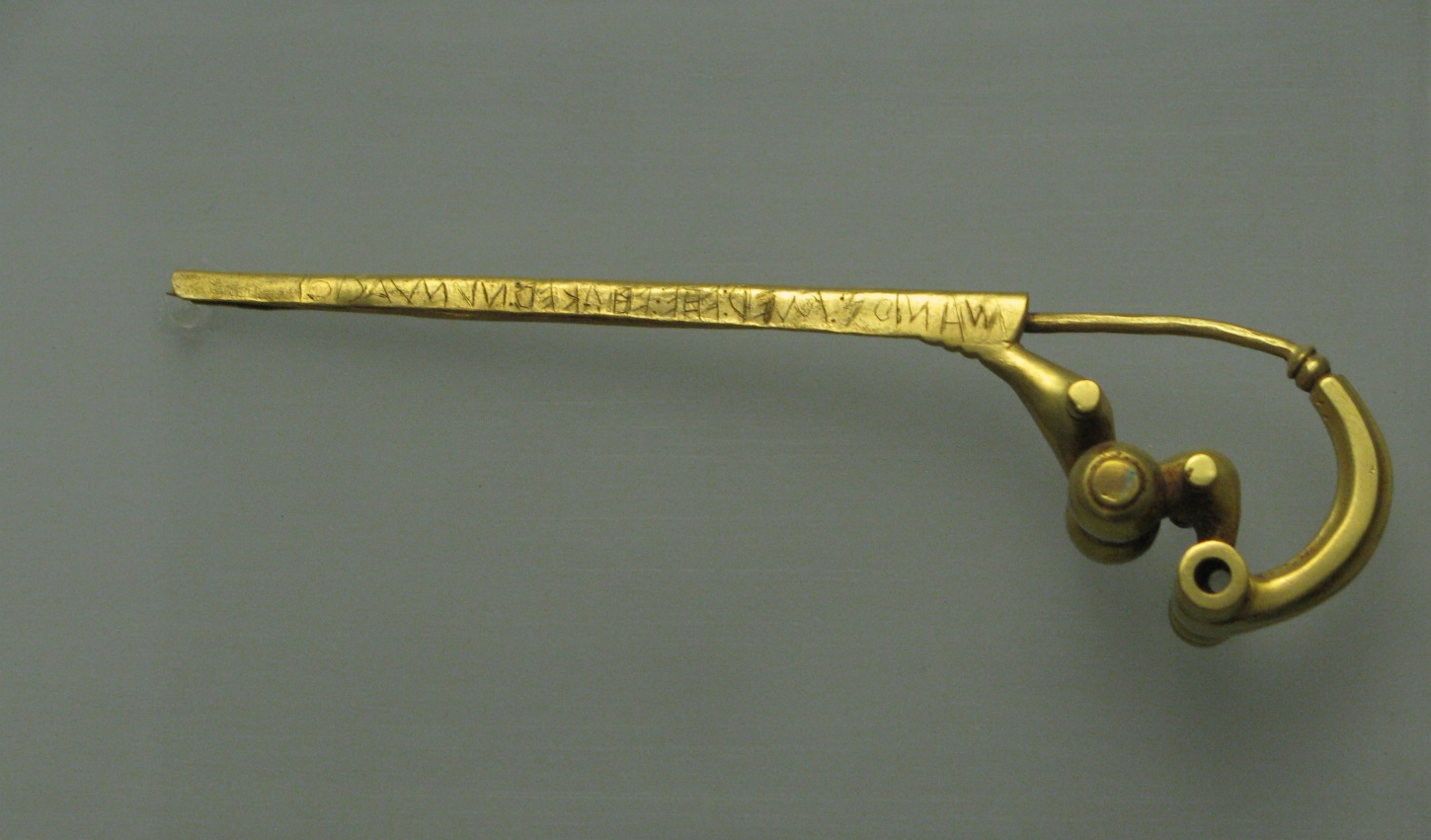 The Praeneste fibula at the Museo Preistorico Etnografico Luigi Pigorini in Rome.